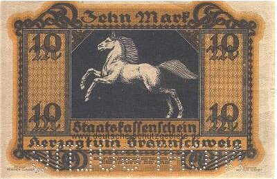 "10 Mark" Bill of "Herzogtums Braunschweig", 19. century